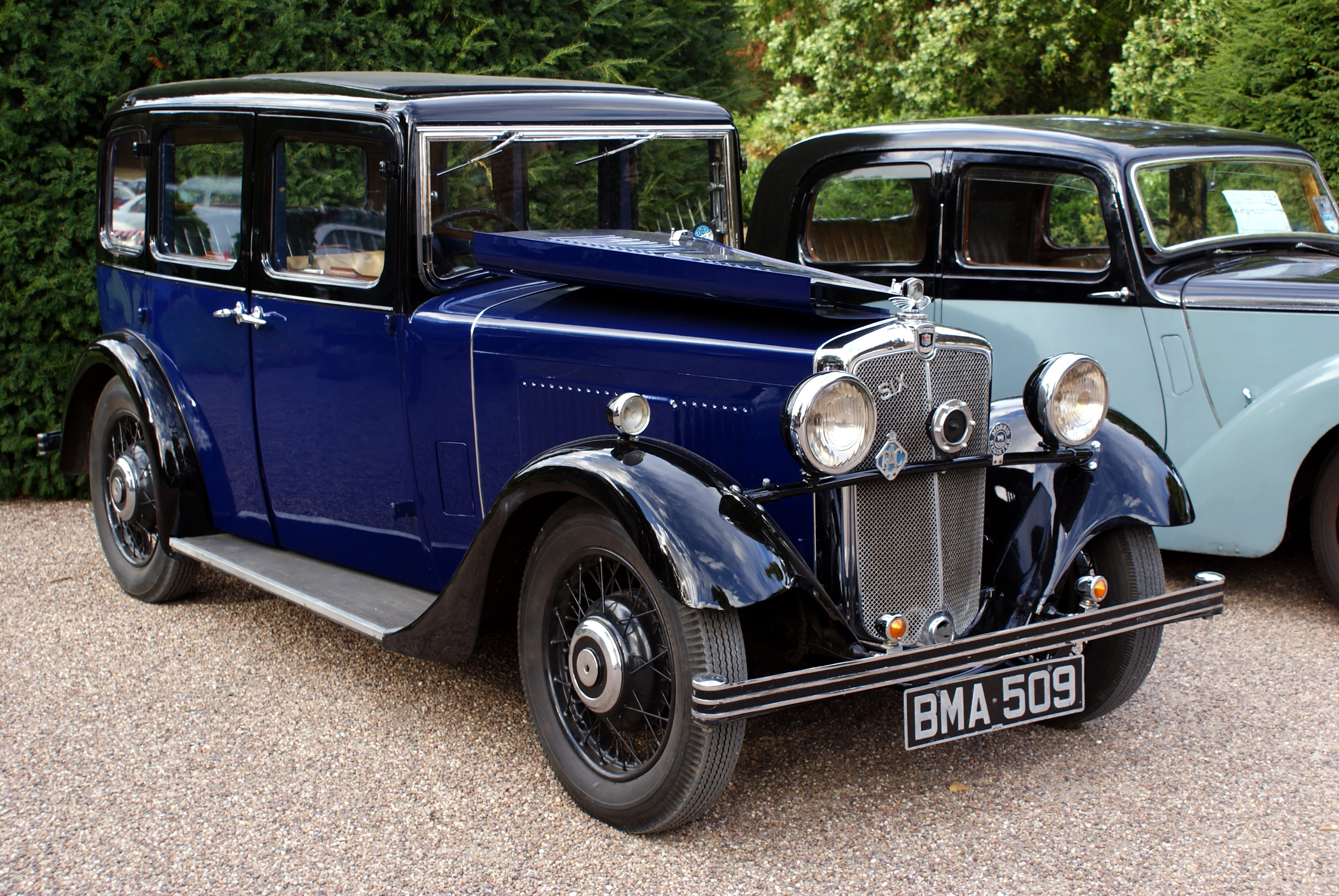 Morris Ten Six BMA 509 1934 (DVLA) first registered 1 November 1934, 1378cc Rufford Abbey, 10th September 2011